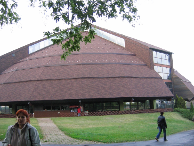 Ópusztaszer National Memorial Site of Hungary